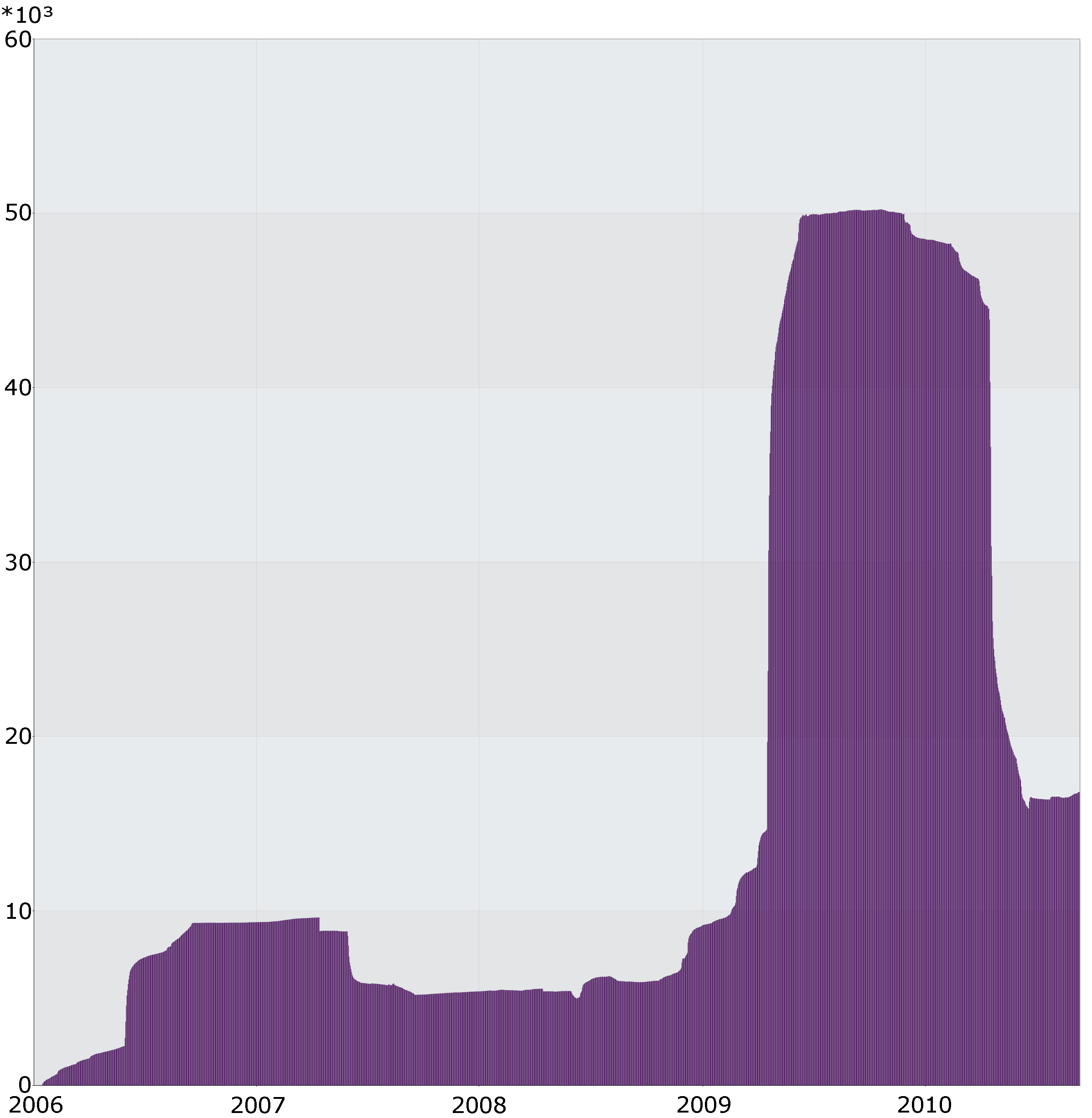 Diagram of the membership statistics of the Pirate Party (Sweden), 2006—2010